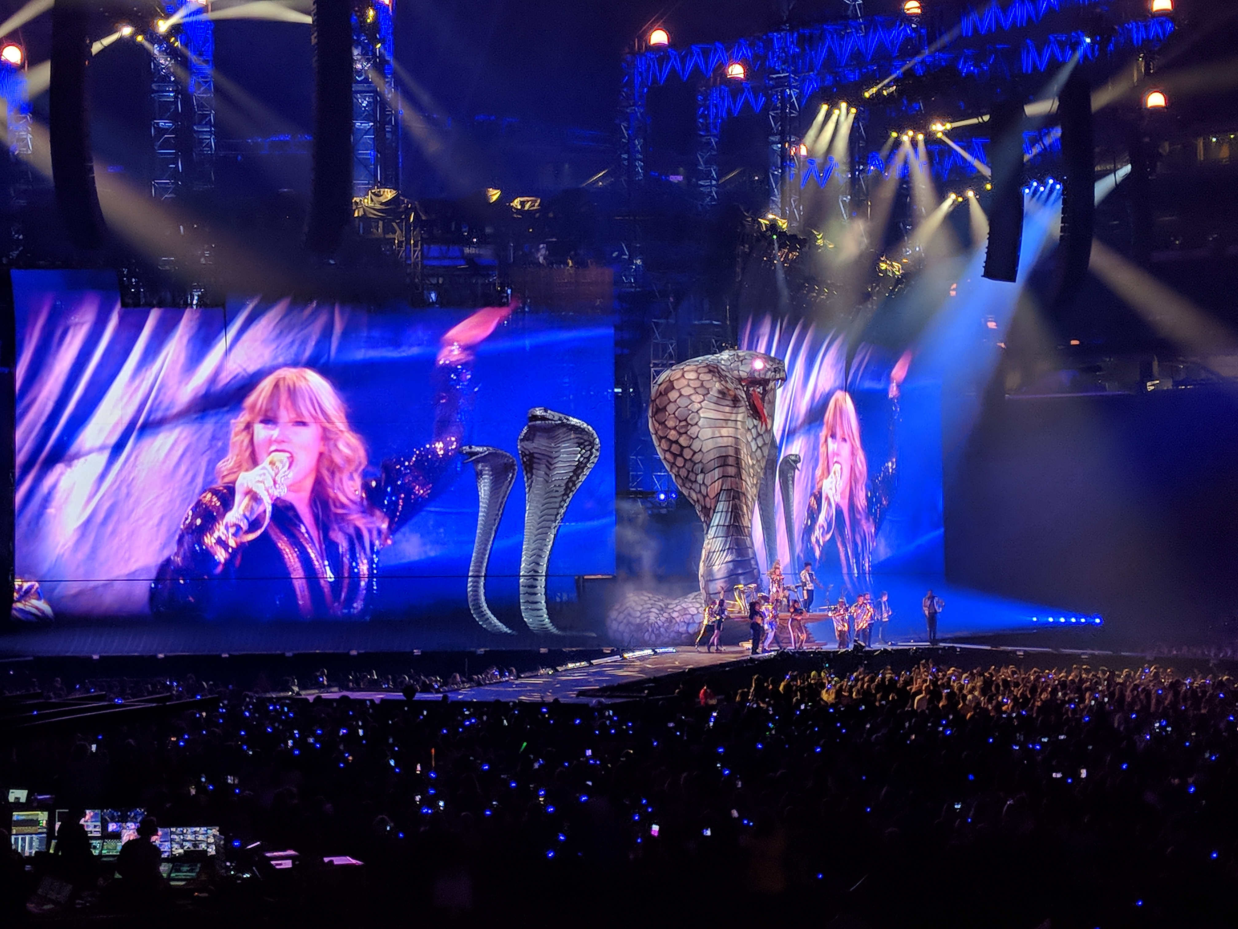 The first appearance of giant snakes during the concert